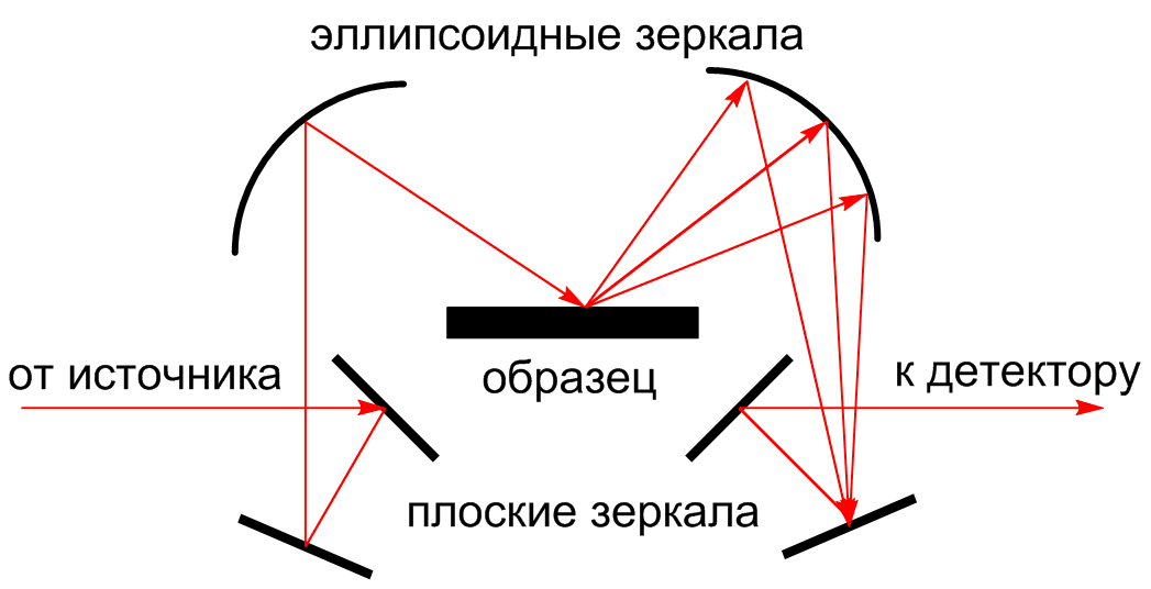 Diffuse refliection ir spectroscopy